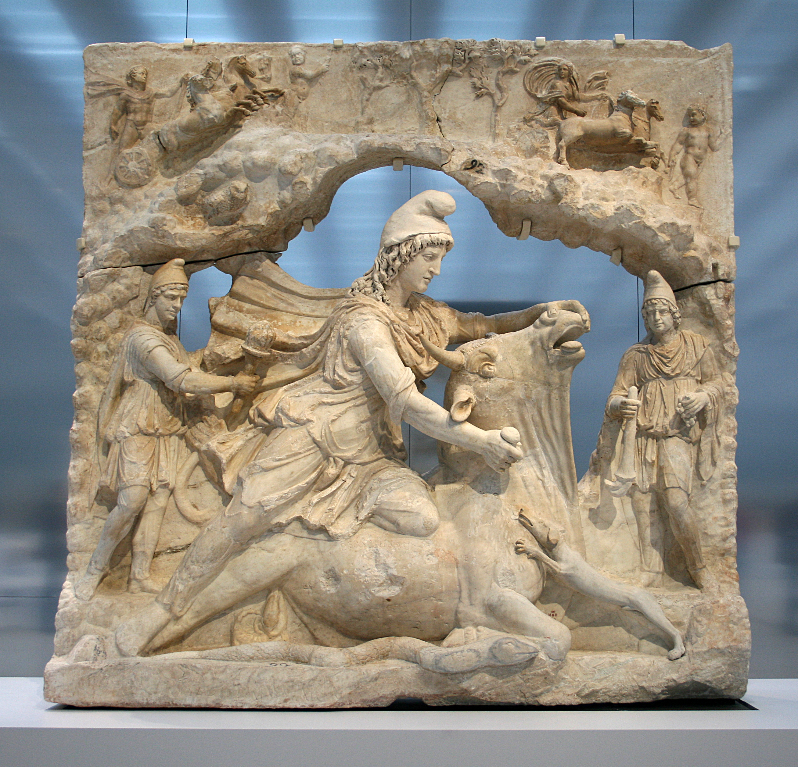 Marble relief of a Mithraic tauroctony scene from the Capitol, Rome, Italie, of the Roman cult figure of Mithras sacrificing a bull - Musée du Louvre-Lens, on exhibit at the Galerie du Temps, secteur Antiquité / Empire romain. Note: the head is a statuary that shows Mithras looking at the bull or towards the viewer are the result of Renaissance-era restorations of monuments that were missing a head; they are incorrect reconstructions.